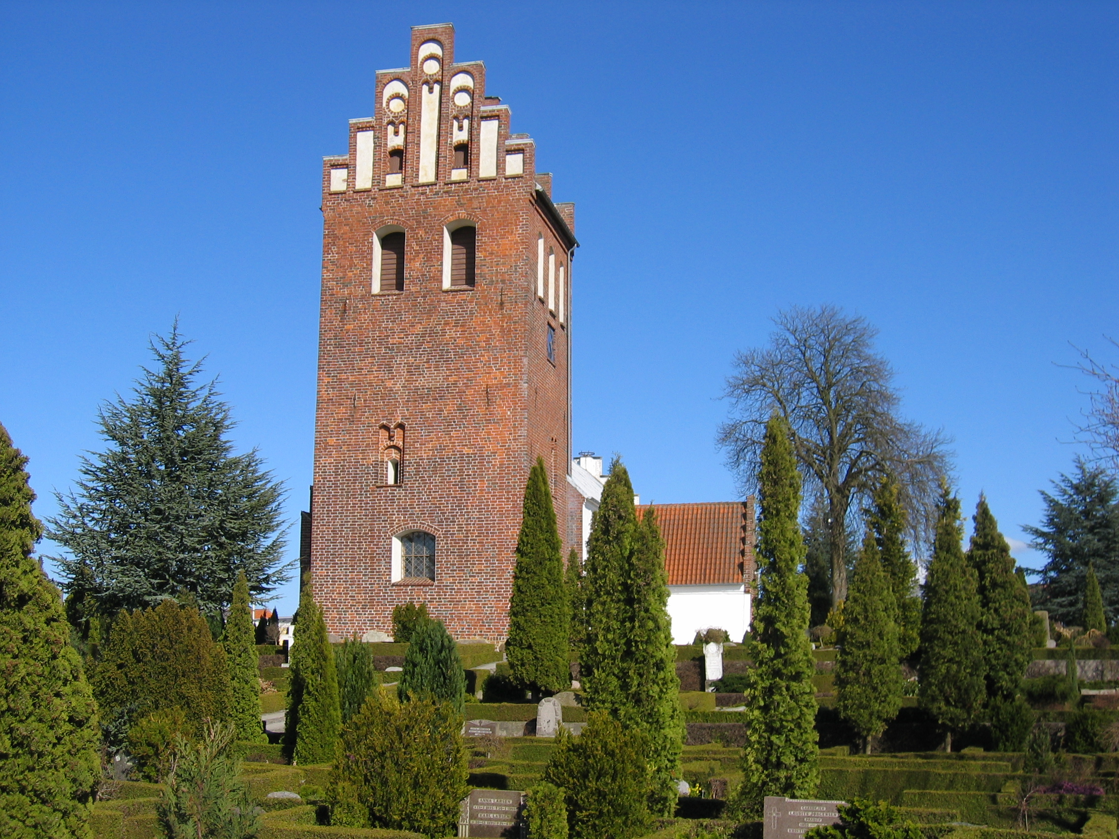 Græsted church, Græsted parish, Holbo Herred, Frederiksborg County, Denmark